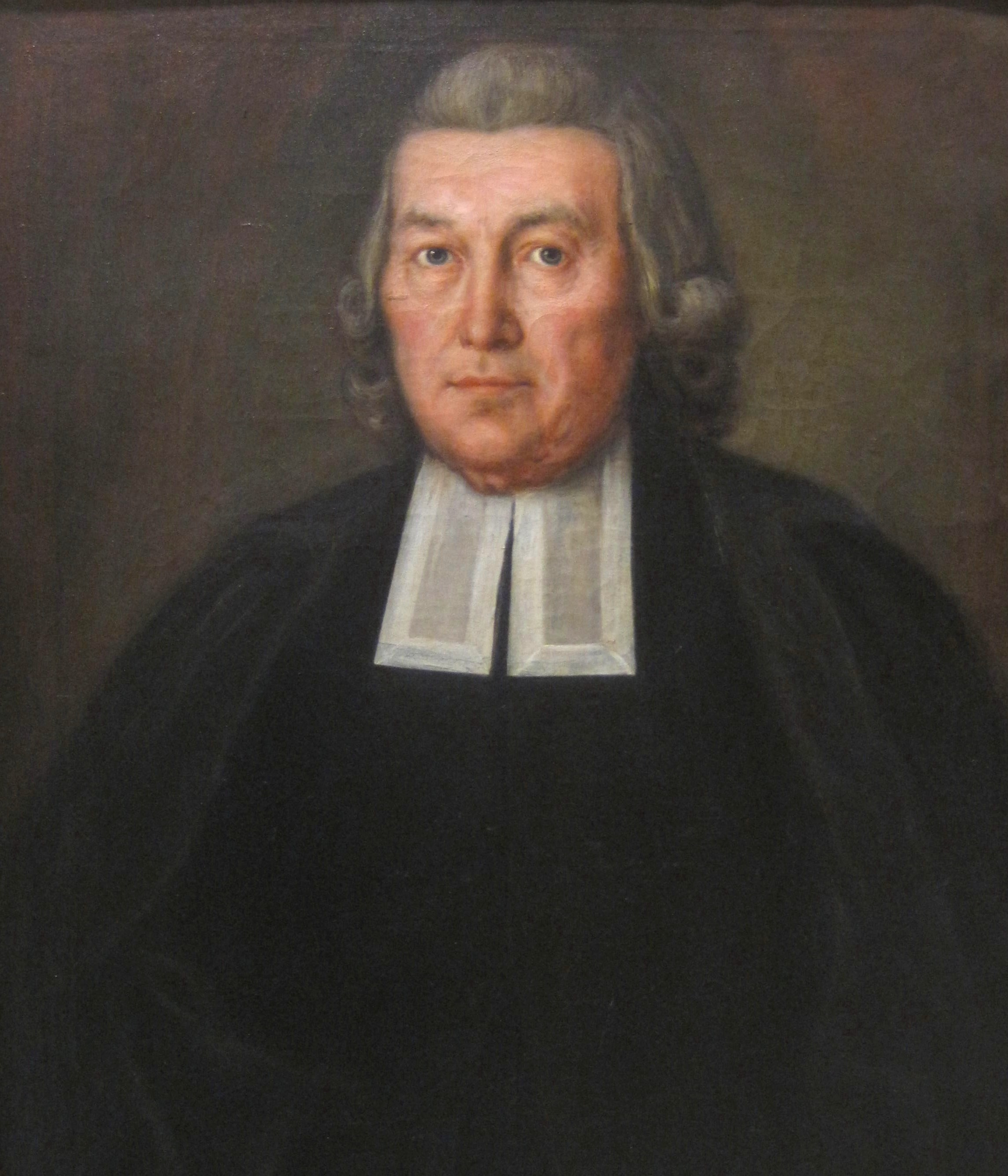 Johan Nelander (1709-1789), professor of philosophy at Lund University.